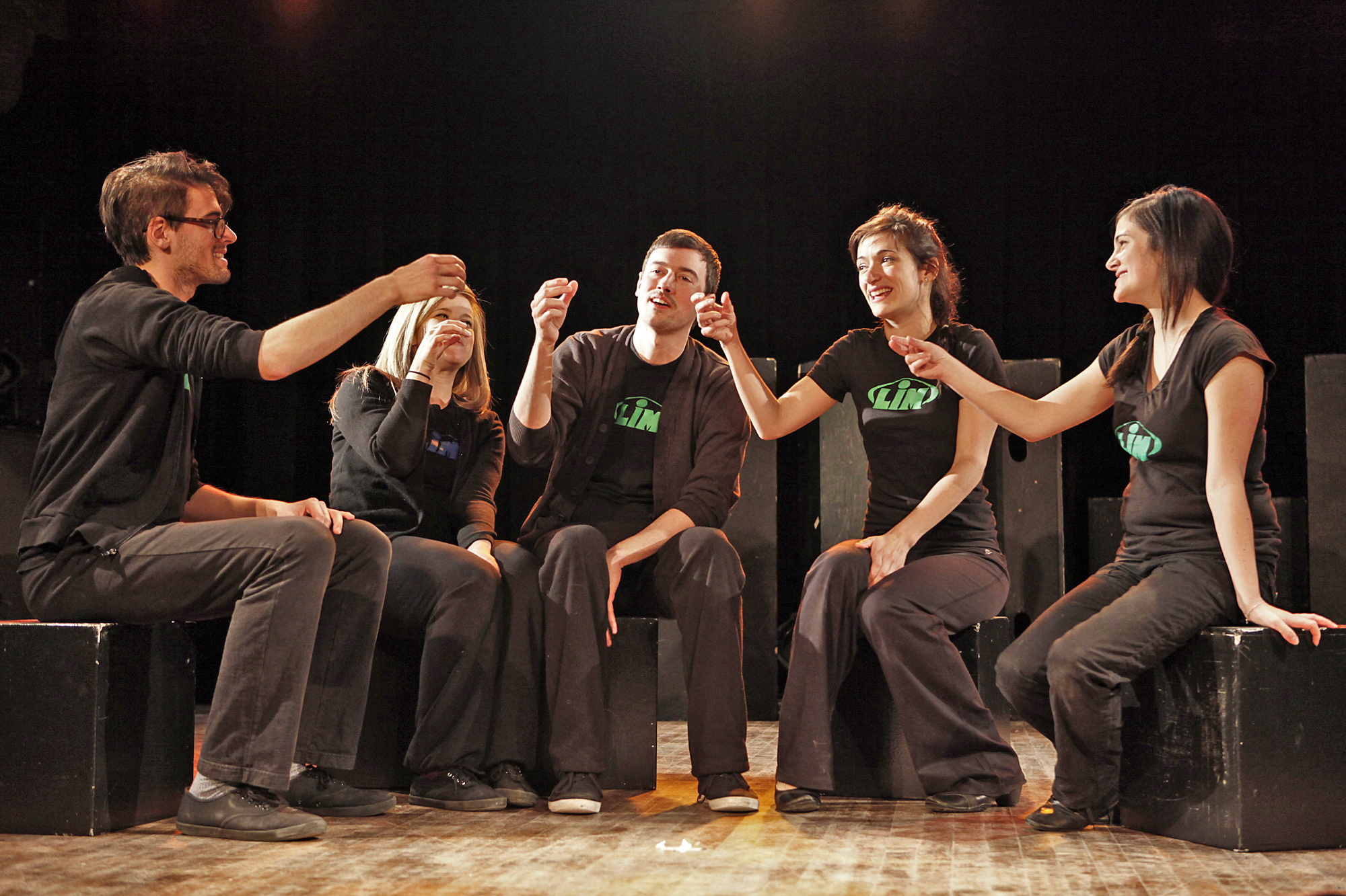 (DESCRIPTION). The Ligue d'improvisation montréalaise (LIM) is a league of improvisational theater based in Montreal, Quebec, Canada.